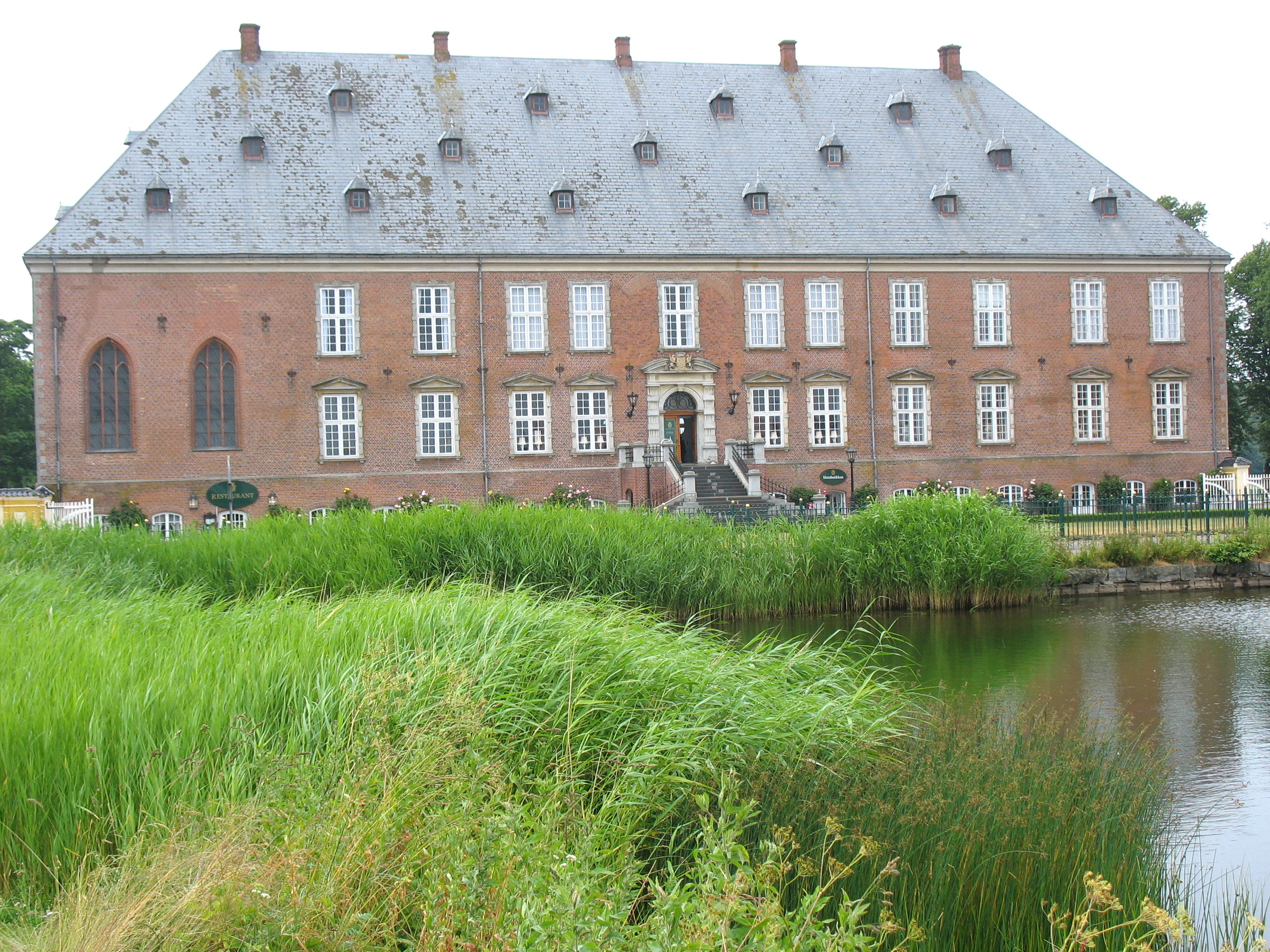 The castle "Valdemars Slot" on the Danish island Taasinge.